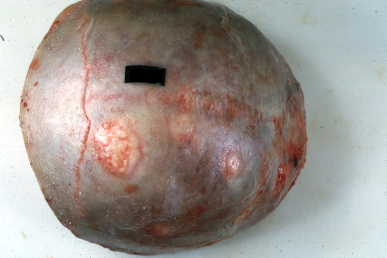 Metastatic Pancreas Carcinoma: Gross natural color skull cap with obvious metastatic lesions primary in pancreas